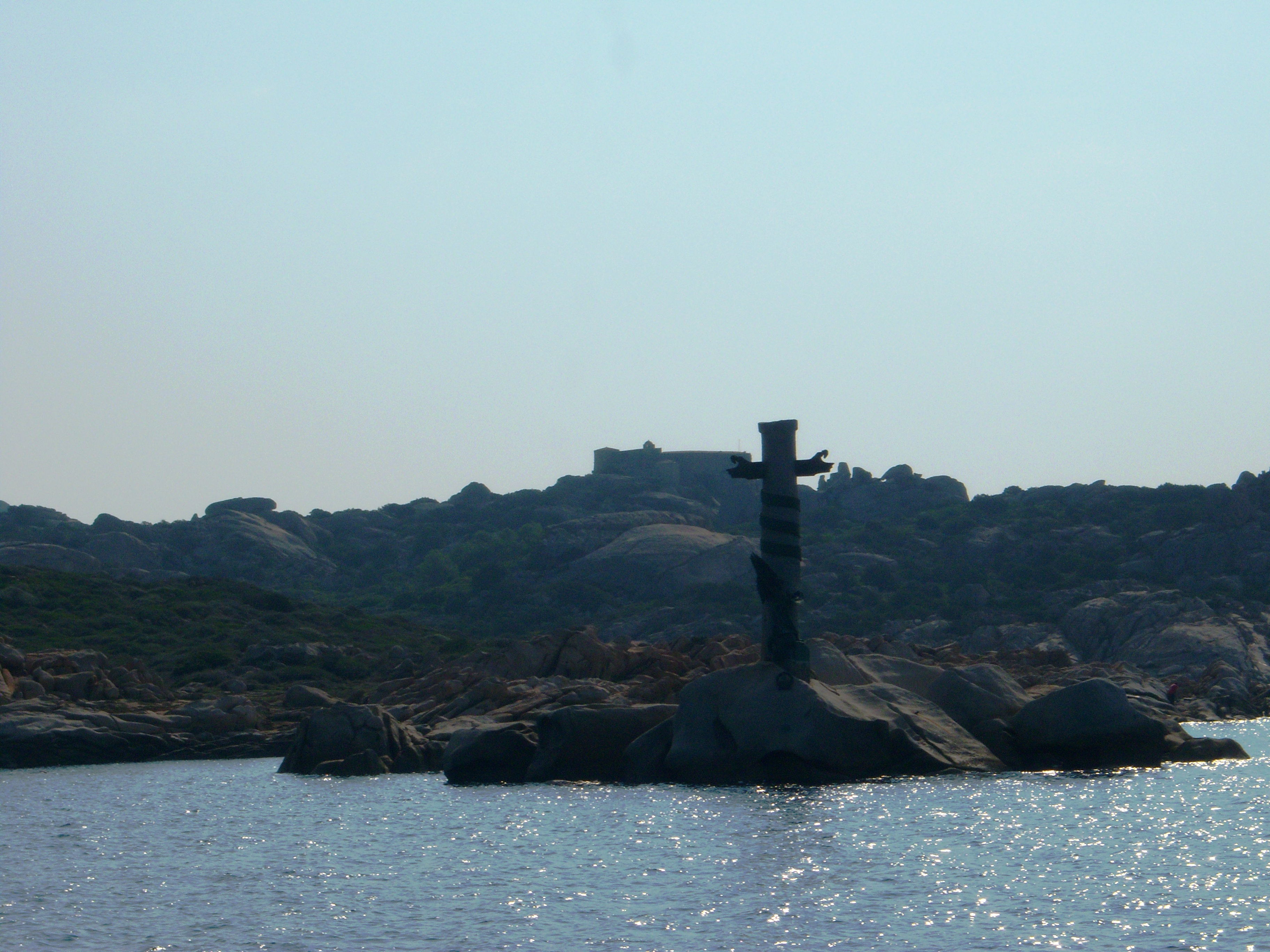 Memorial for the victims of the shipwreck of the Roma battleship in 1943